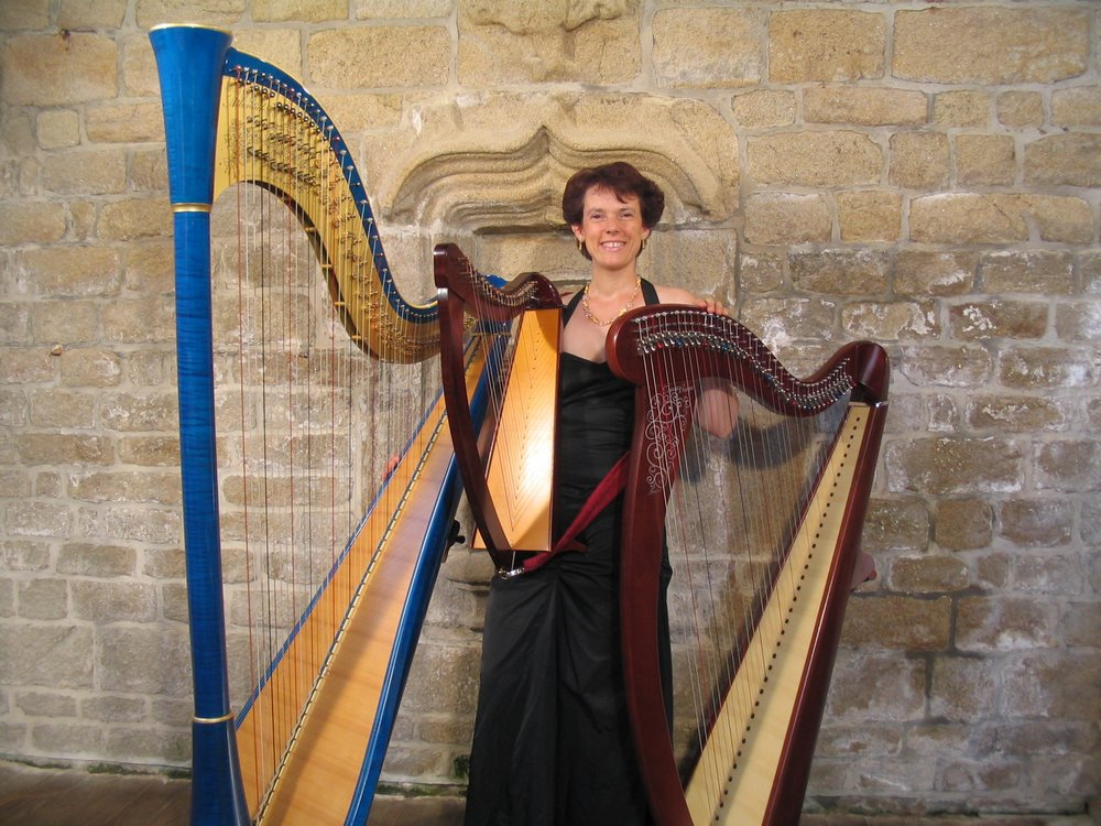 Harpist Armelle Gourlaouën with three differently sized harps.